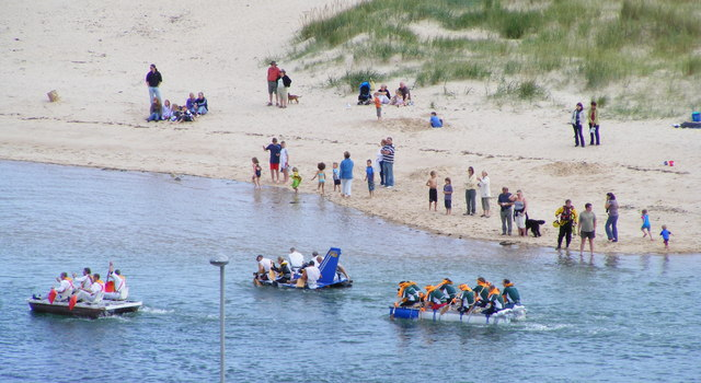 The 2009 Raft Race at Lossiemouth This annual charity event is on the river Lossie estuary.